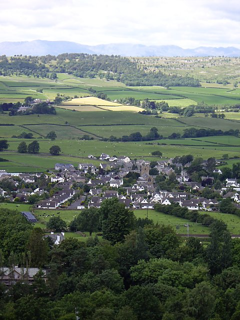 Natland as seen from the Helm